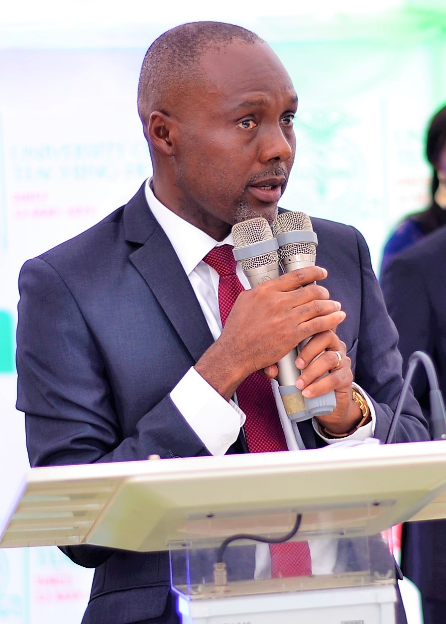 Professor Darlington Obaseki, giving a welcome speech during the 2019 Inaugural Founders Day Celebration of UBTH. May 2019